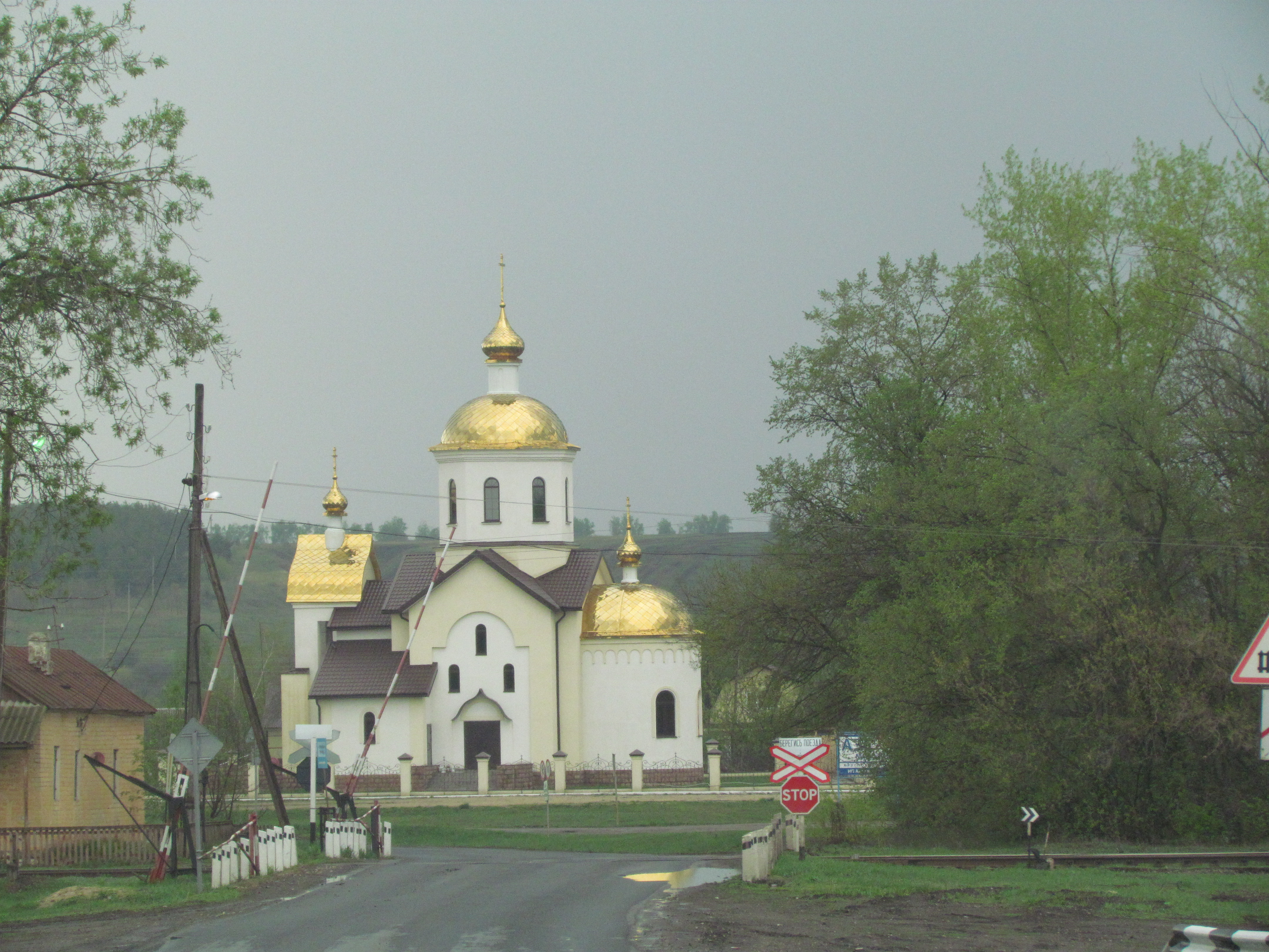 Saint Nicholas the Wonderworker in Vertunovka (Bekovo)